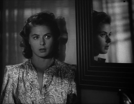 This screenshot shows Ingrid Bergman in Humphrey Bogart's office.